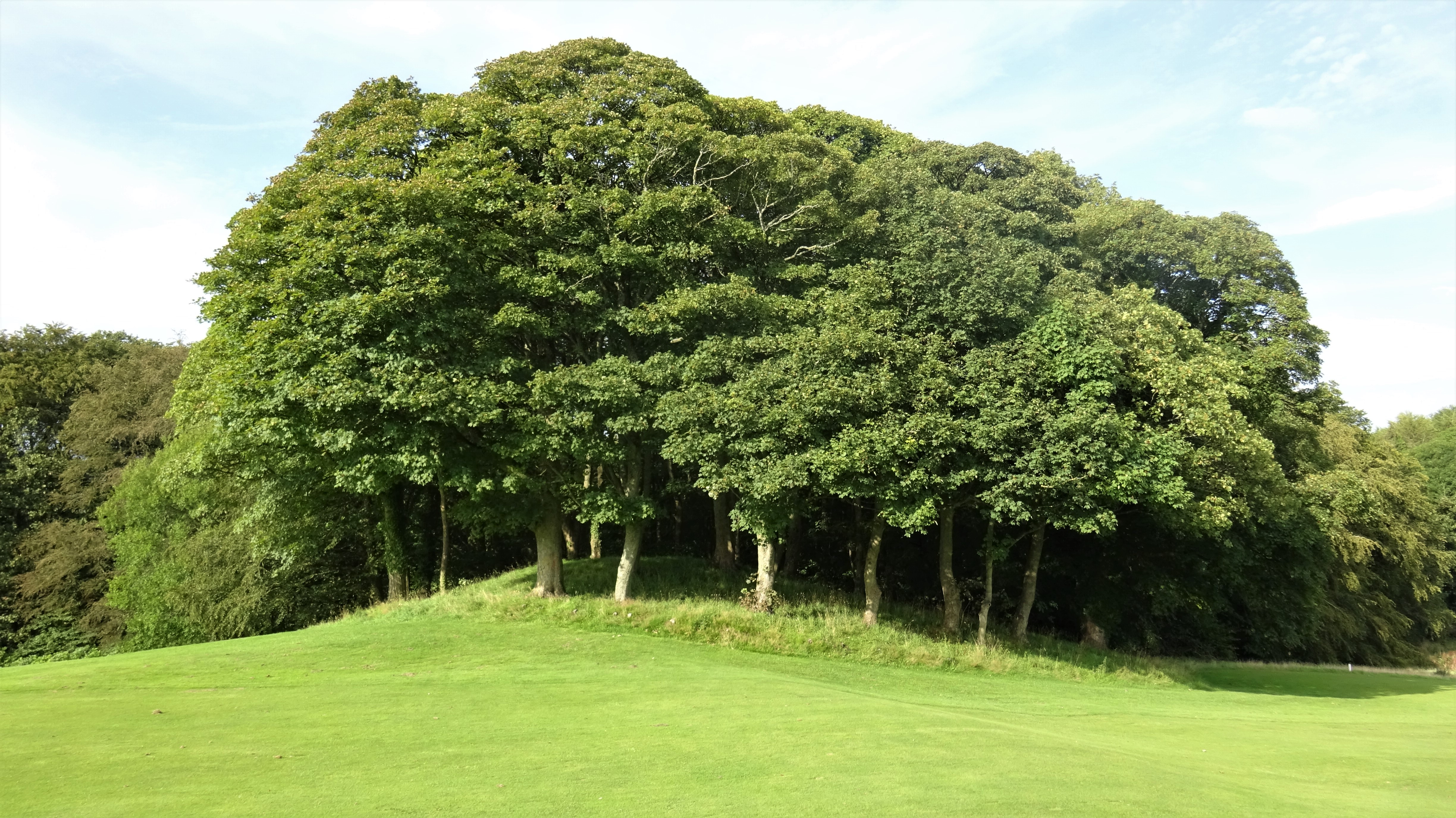 The Castle or Motte Hill, Caprington, East Ayrshire, Scotland. View from the south.